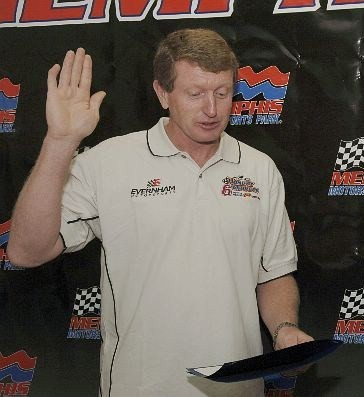 051021-N-3659B-001 Millington, Tenn. (Oct. 21, 2005) - Chief Aviation Ordnanceman Mark Stites takes the Oath of Enlistment read by professional NASCAR driver Bill Elliot at Memphis Motor Sports Park before the Sam’s Town 250 Busch Series race. U.S. Navy photo by Photographer’s Mate 3rd Class Joseph Buliavac (RELEASED)